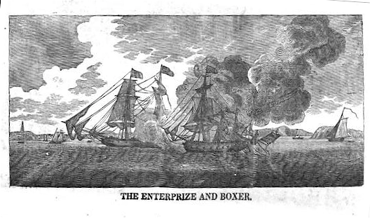 Engraving by Abel Bowen, from "The Naval Monument."